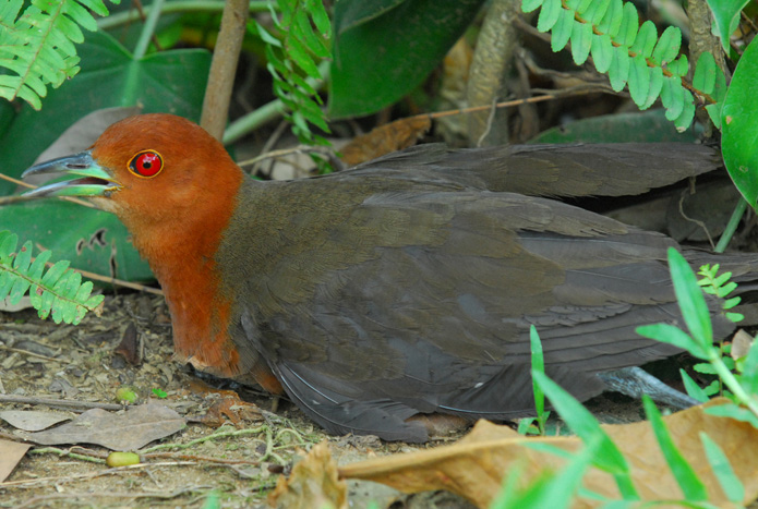 Slaty-legged Crake (Rallina eurizonoides). In the greater Manila area, Philippines.